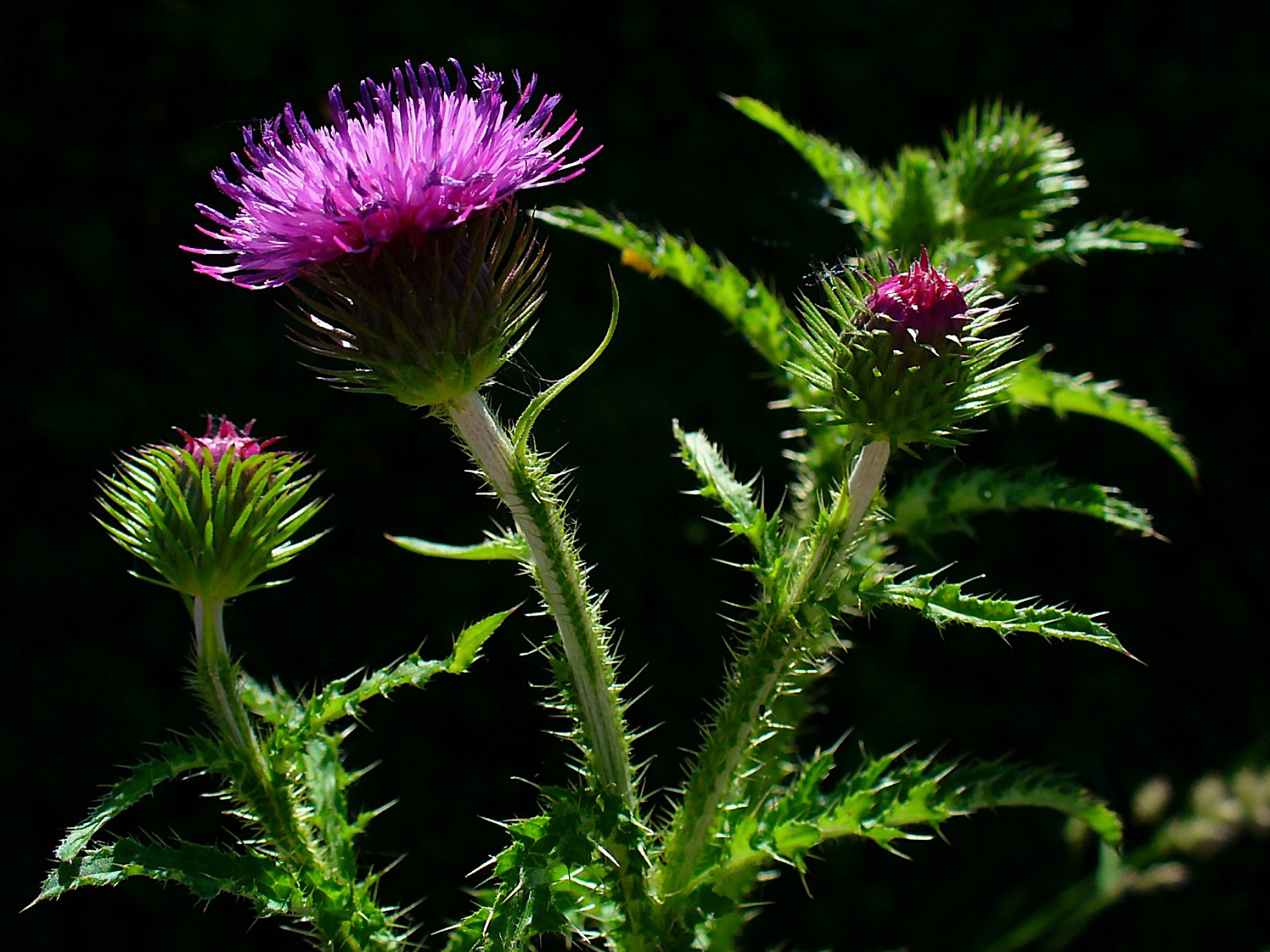 Carduus crispus, Asteraceae, Welted Thistle, inflorescences; Karlsruhe, Germany.